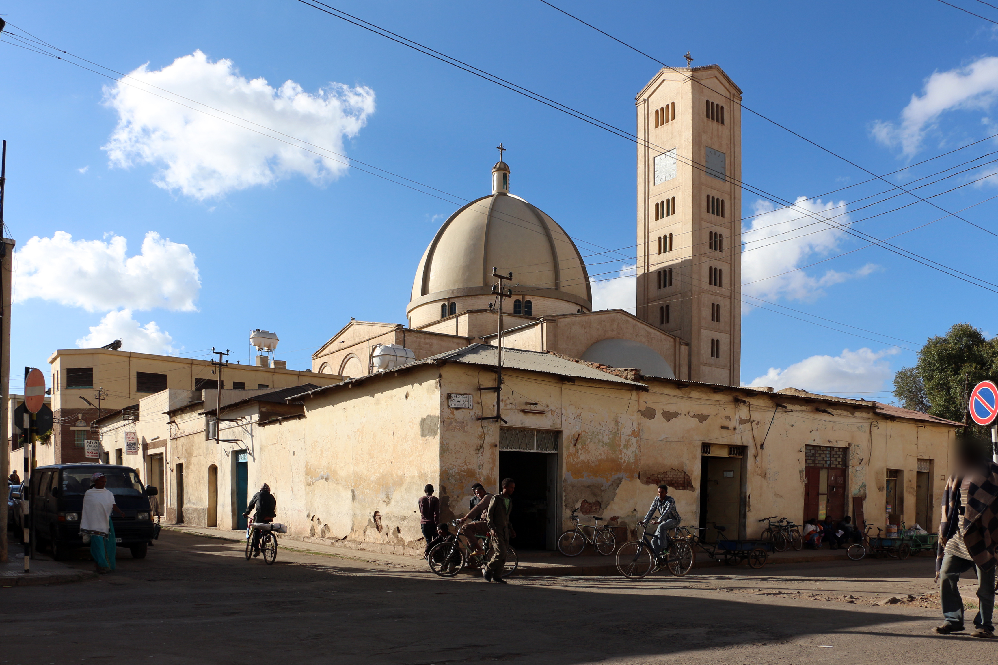 Buildings in Asmara